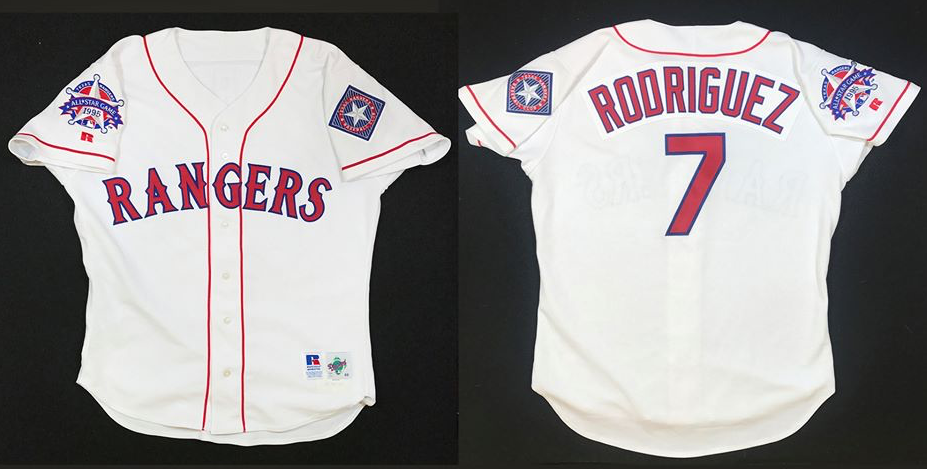 1995 Texas Rangers #7 Ivan Rodriguez home jersey lettered and photographed by William F. Henderson who may be contacted through his website at thedream.shop